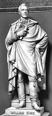 Statue of William King at NSHC